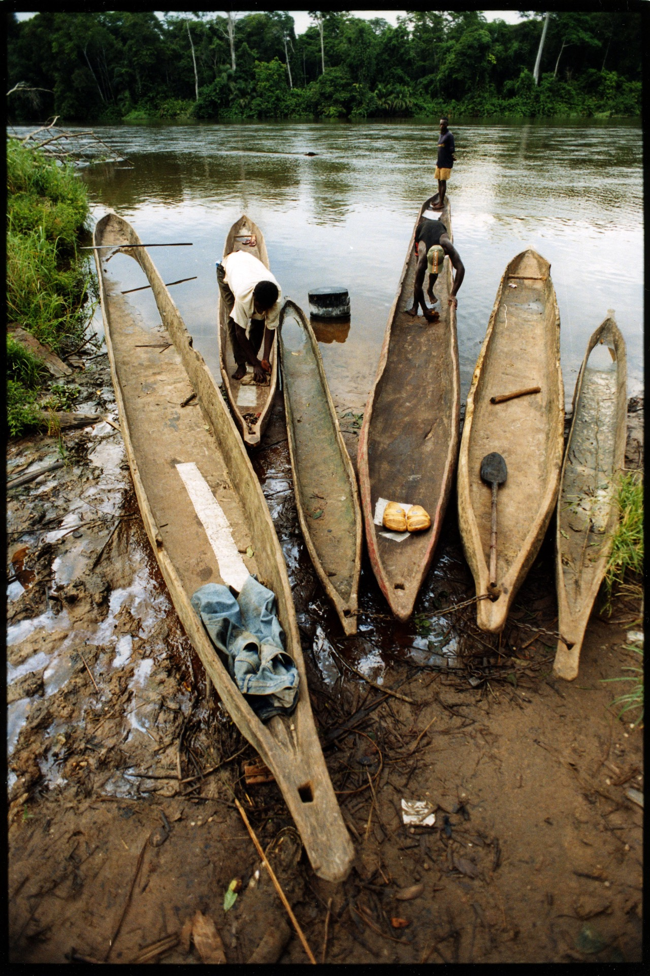 Image taken during a training mission on human rights and the right to vote in favor of the pygmy population